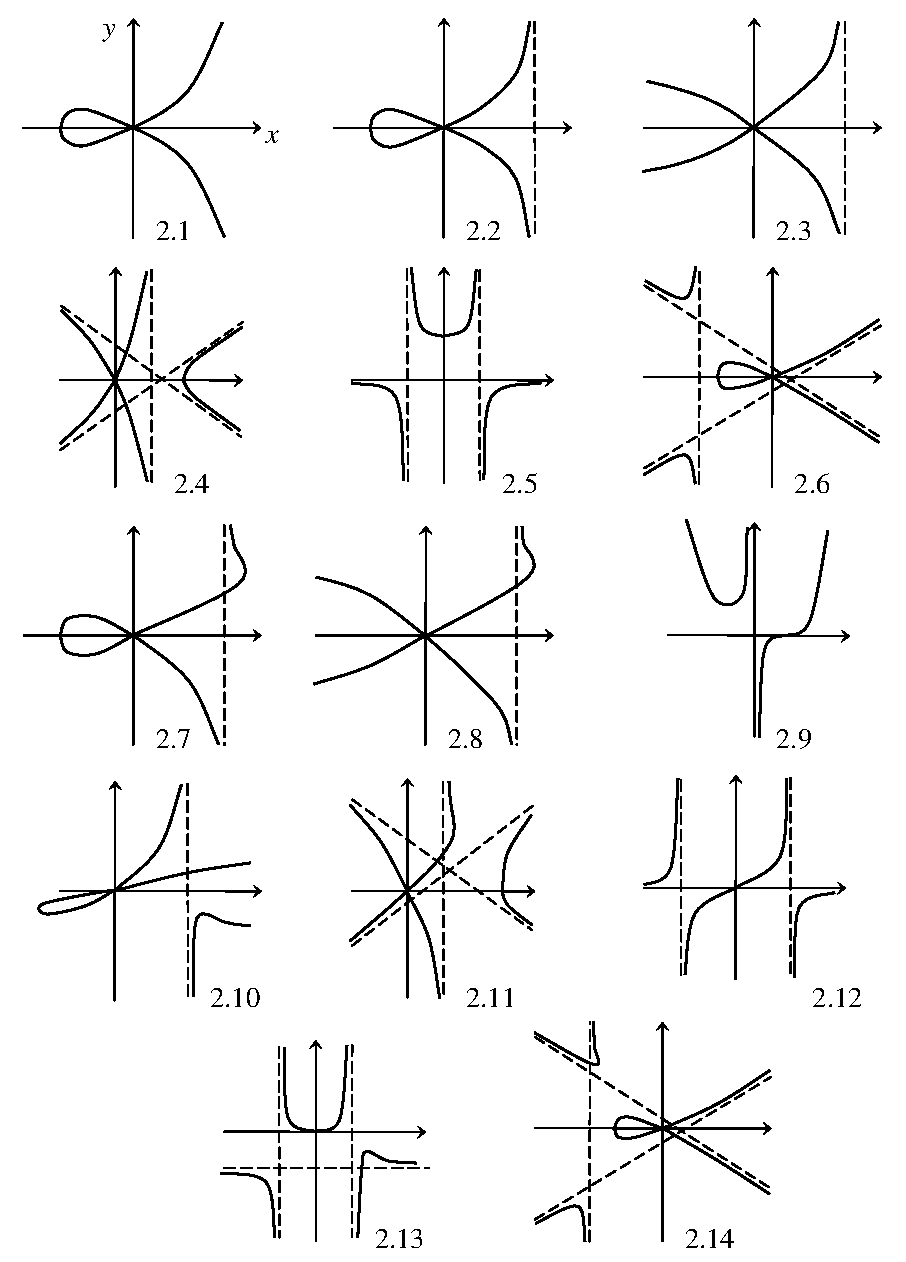 Classes from cubic with loop